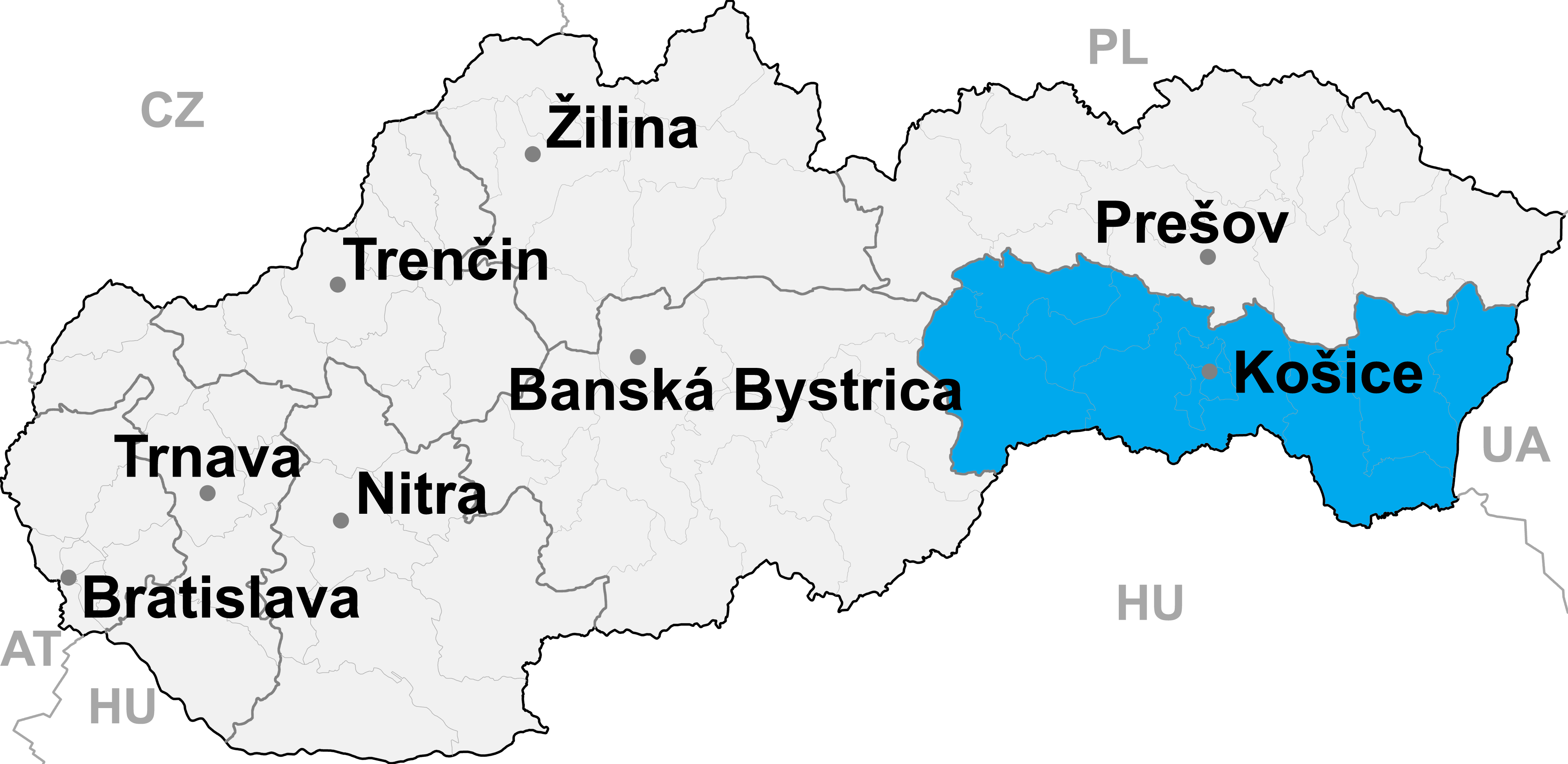 map of Slovakia, district (kraj) of Košice highlighted